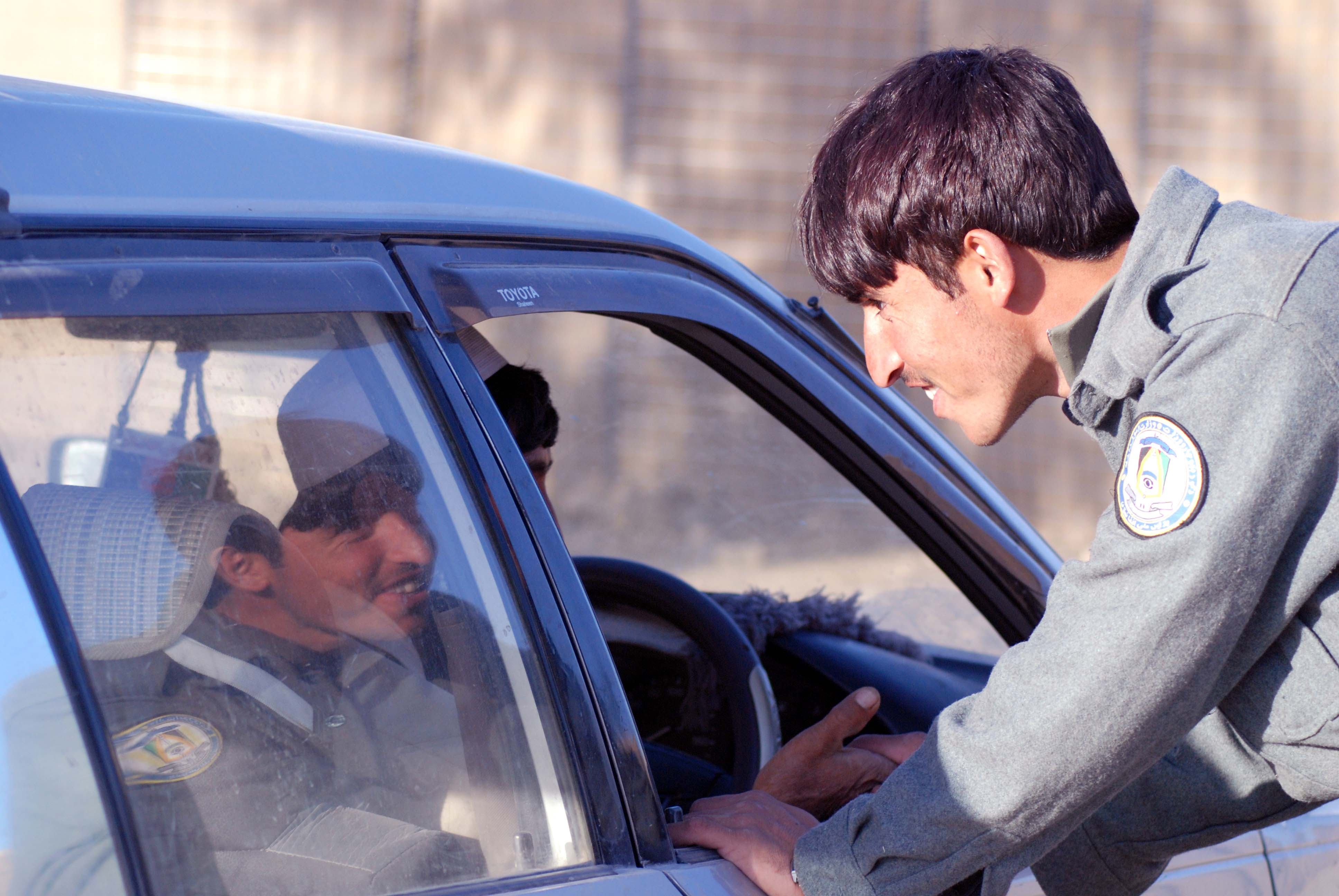 An Afghan border police checks a car at a border crossing road in eastern Khowst. The ABP recently re-structured a traffic control point with assistance and mentoring of an embedded training team. (Photo ID: 67947)